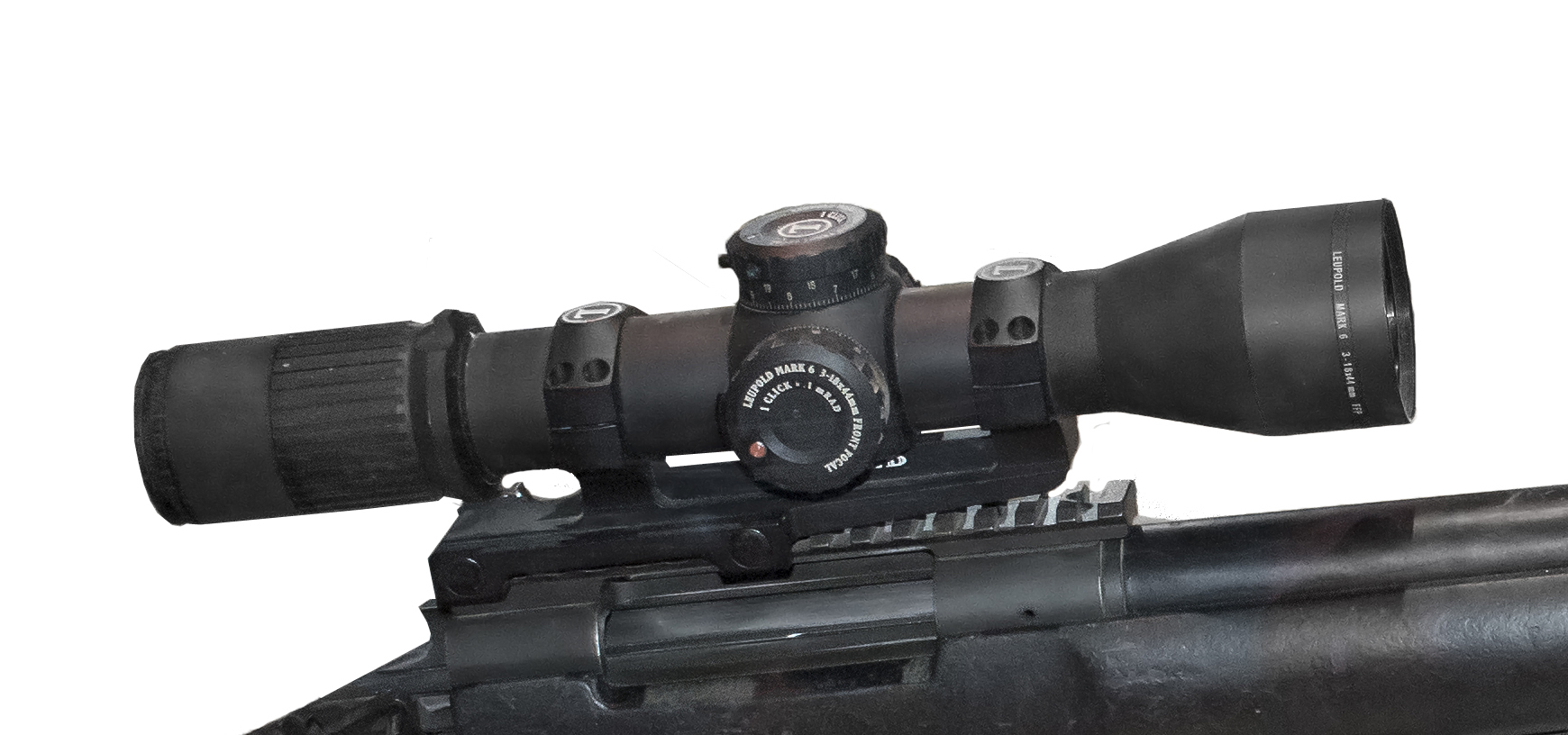 Remington M24 SWS with Leupold Mark 6 scope sight and bipod, Our IDF 70, Israel